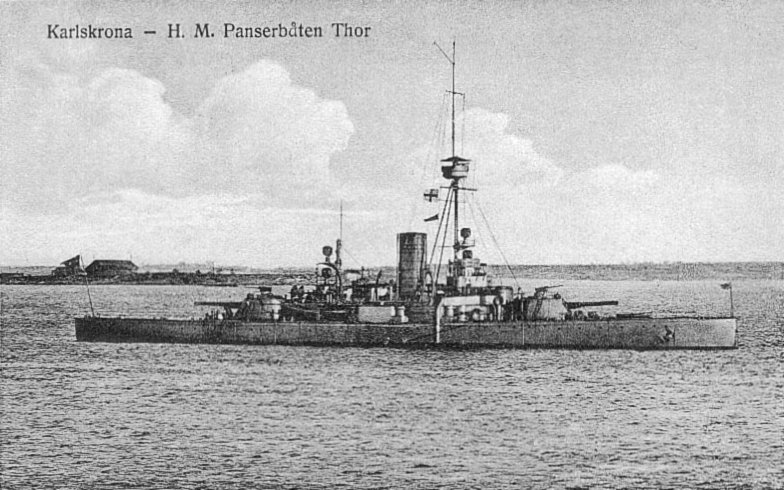 Picture of the Swedish battleship HMS Thor.